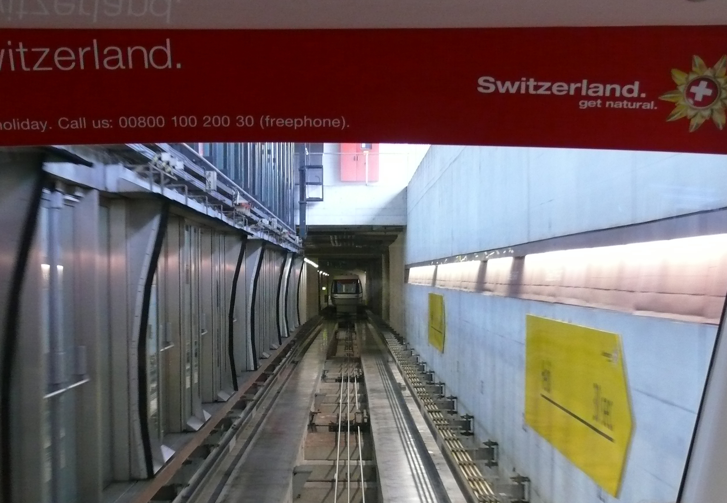 Railway and tunnel of the Skymetro, the airport people mover at Zurich International Airport between terminals B and E.